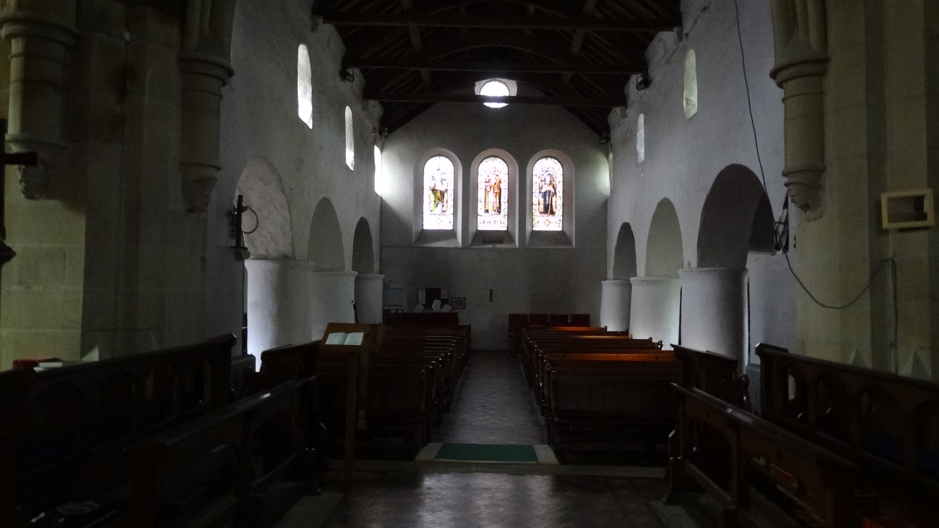 Cadfan's church, looking west